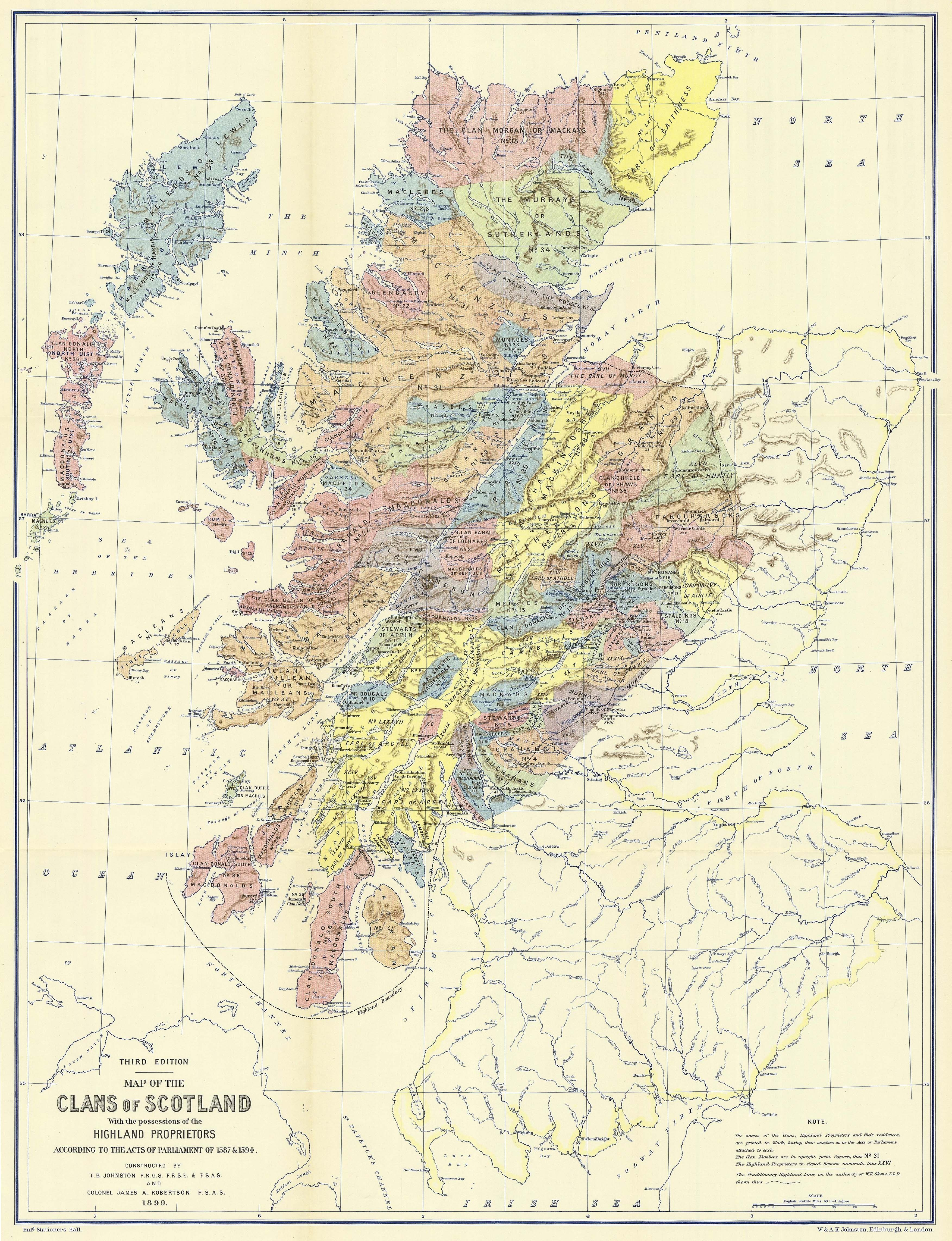 Titled "Map of the clans of Scotland with the possessions of the Highland Proprietors according to the Acts of Parliament of 1587 & 1594". The map shows the locations of the clans and the land owned by the principal landowners in around 1587-1594. The map was created in the late 1800s and published in 1899.